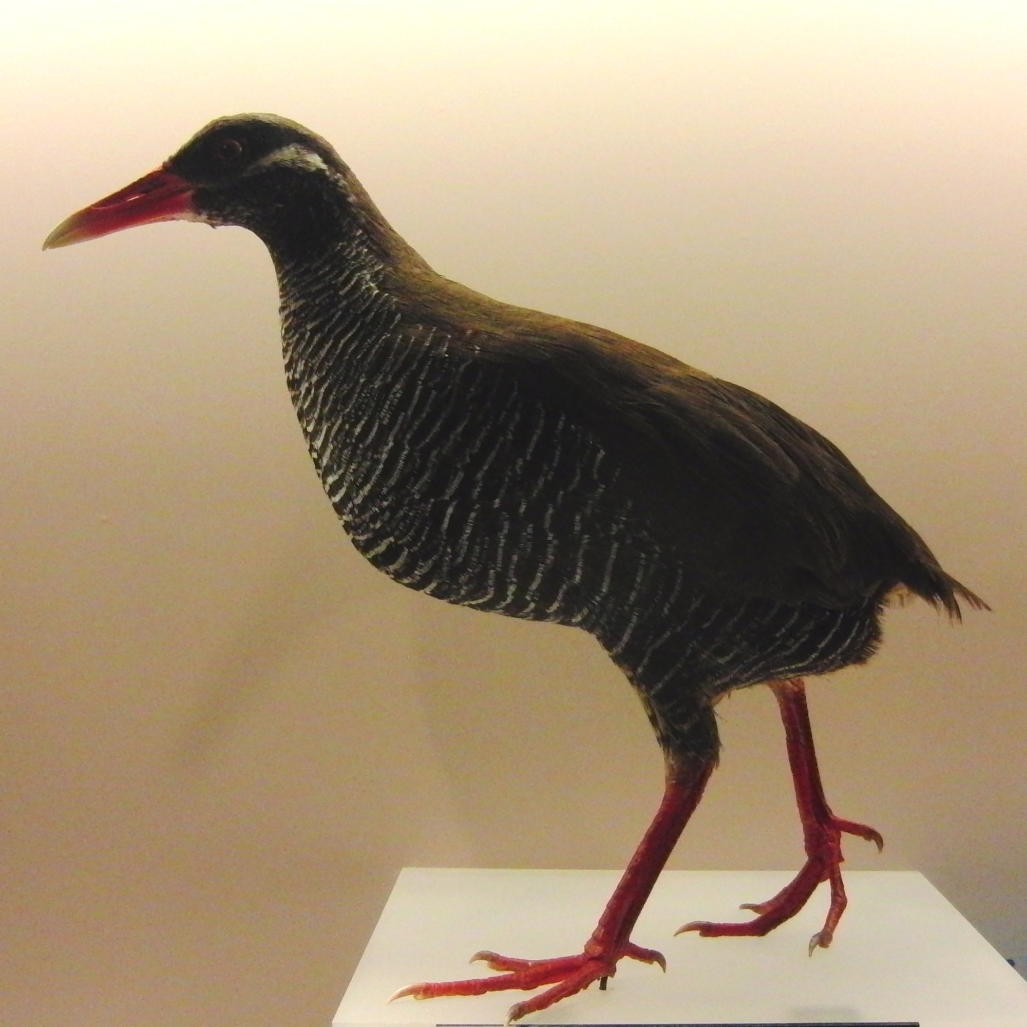 Stuffed specimen of Okinawa Rail (Gallirallus okinawae). Exhibit in the National Museum of Nature and Science, Tokyo, Japan.